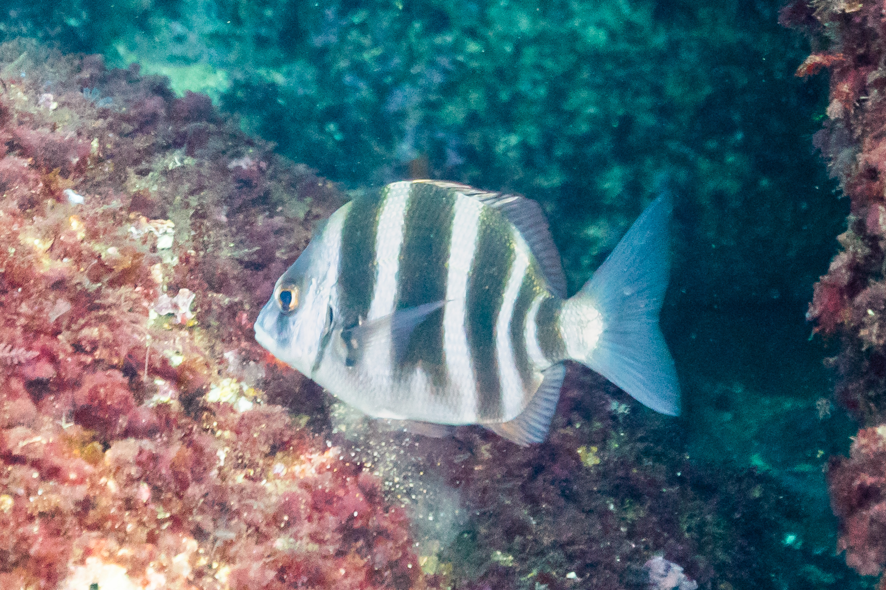 Zebra sea bream (diplodus cervinus), Mouro Island, Santander, Spain